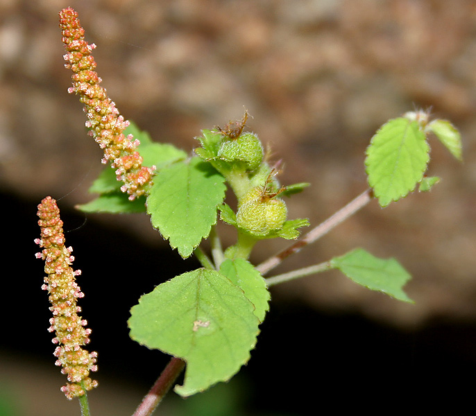 Acalypha capitata Willd. (syn. Acalypha alnifolia Klein ex Willd.) in Keesara, Rangareddy district, Andhra Pradesh, India.